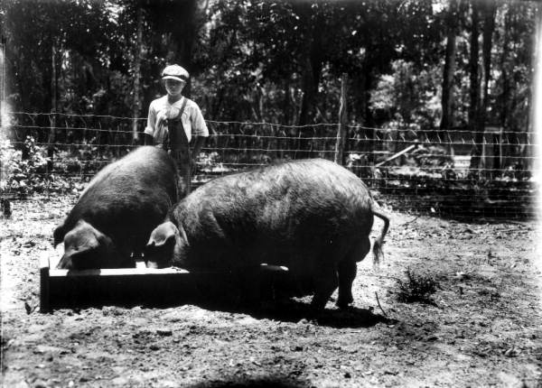 Poland China boars raised by J.C. Herlong: Micanopy, Florida. July 15, 1917.